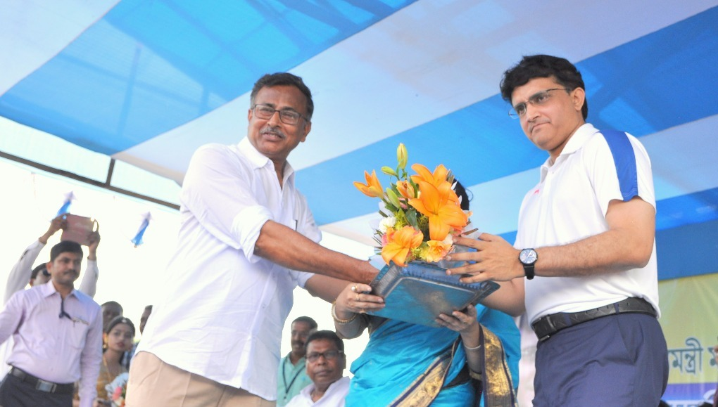 in a ceremony of Midnapore